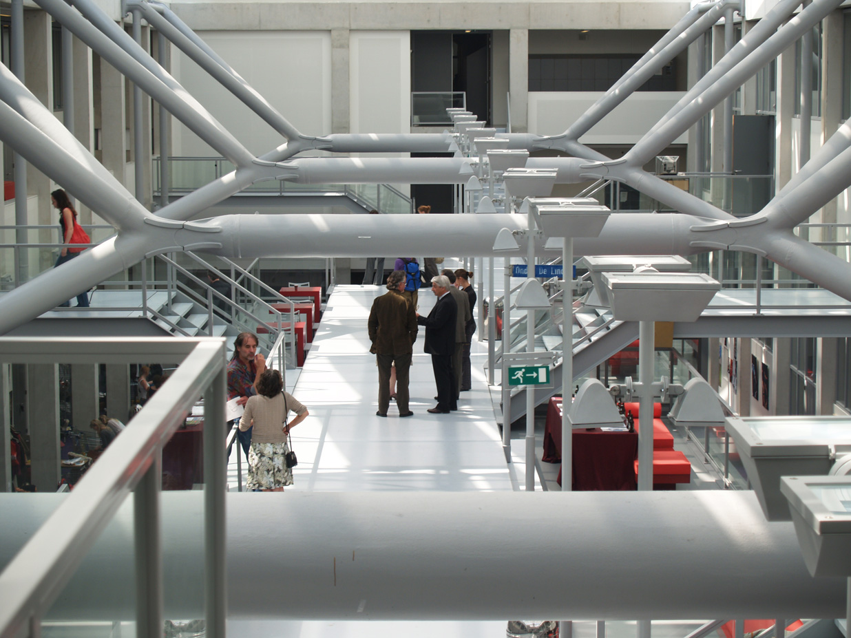 De kelder van ArtEZ in Arnhem gebouwd door Architectenburau Henket & partners